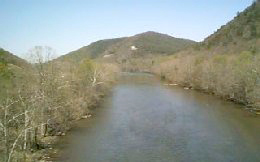 The Nolichucky River from Tennessee State Route 81 at Embreeville in Washington County.